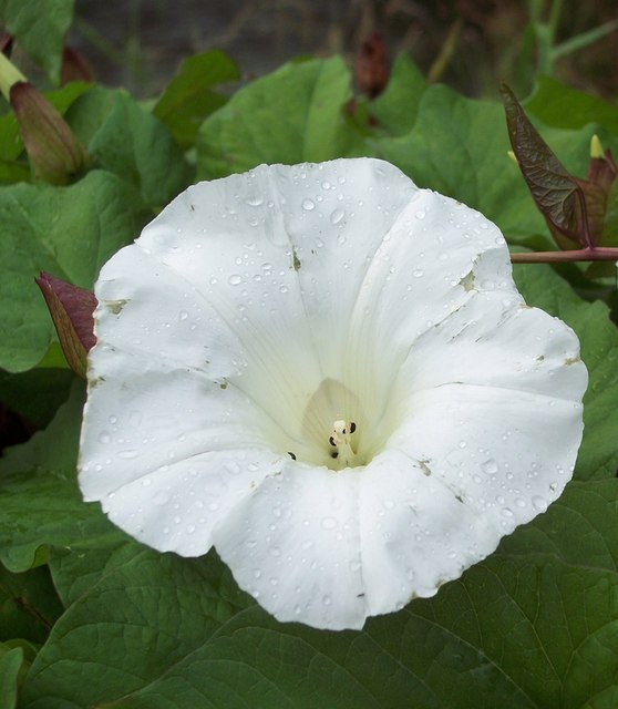 Convolulus (Bindweed) The field bindweed (Convolvulus arvensis), a trailing plant with handsome white or pink-and-white-streaked flowers, is a common weed in Britain.